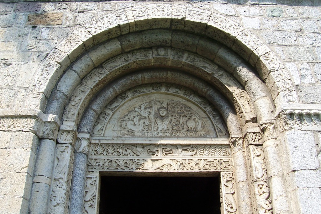 Portal. Pieve di San Siro. Cemmo, Capo di Ponte, Val Camonica